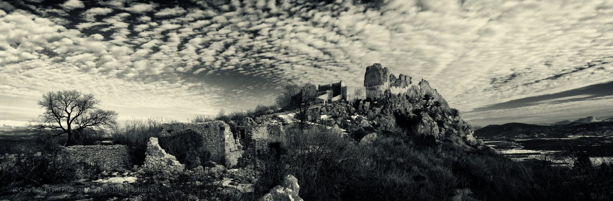 Ljubuški (Herzegovina) Ljubuški Castle, black and white panoramic picture.